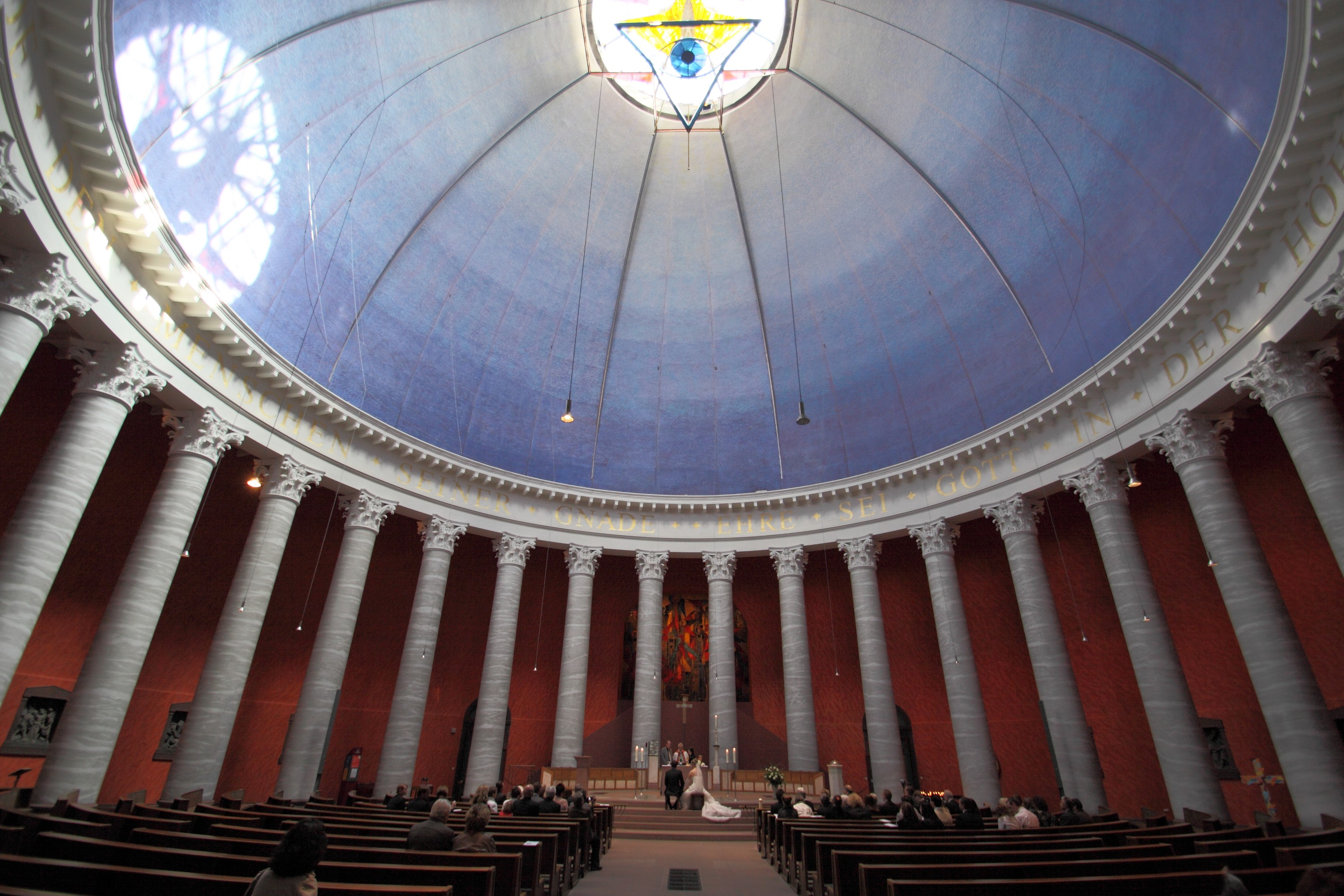 Catholic Church in Darmstadt, Germany: St Ludwig's Church; Wide angle view from inside